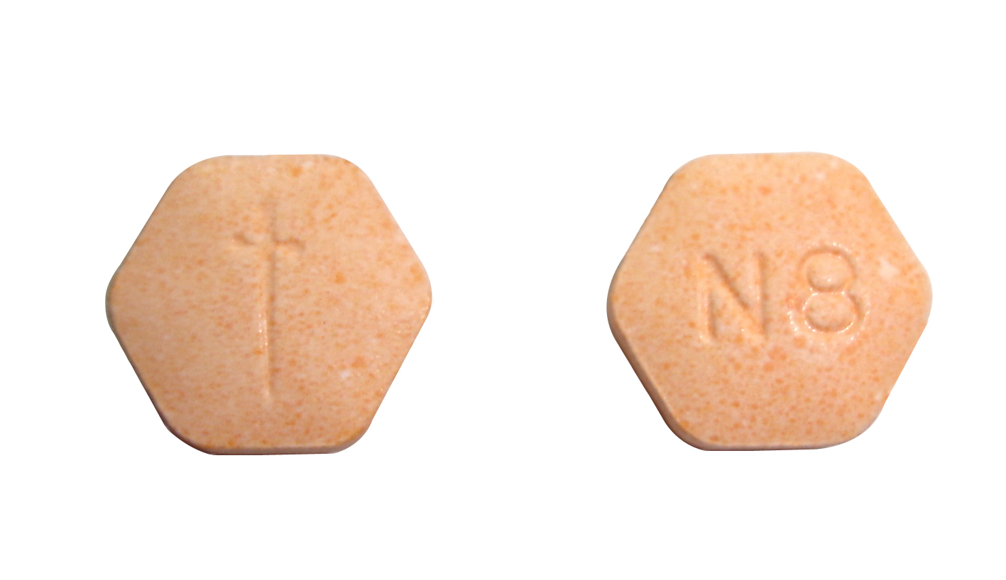 Suboxone tablet - both sides.